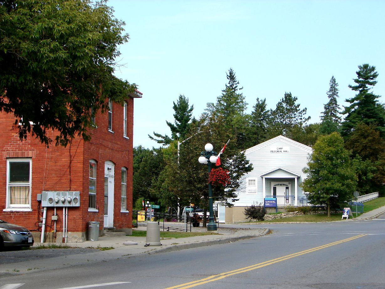 Carp, part of City of Ottawa, Ontario, Canada